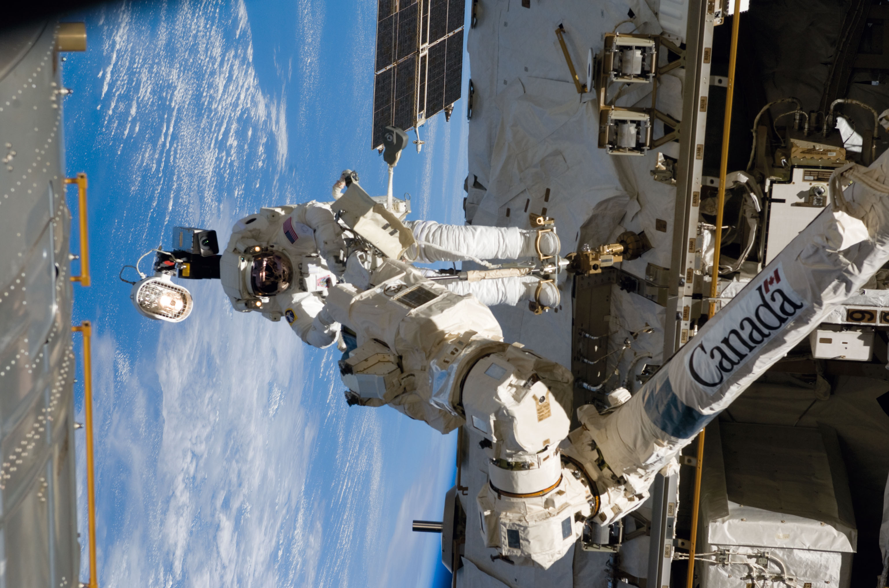 Astronaut Richard Arnold, STS-119 mission specialist, participates in the mission's third scheduled session of extravehicular activity (EVA) as construction and maintenance continue on the International Space Station. During the six-hour, 27-minute spacewalk, Arnold and Joseph Acaba (out of frame), mission specialist, helped robotic arm operators relocate the Crew Equipment Translation Aid (CETA) cart from the Port 1 to Starboard 1 truss segment, installed a new coupler on the CETA cart, lubricated snares on the "B" end of the space station's robotic arm and performed a few "get ahead" tasks.